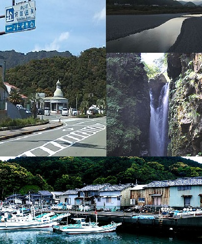 Kaiyo montage